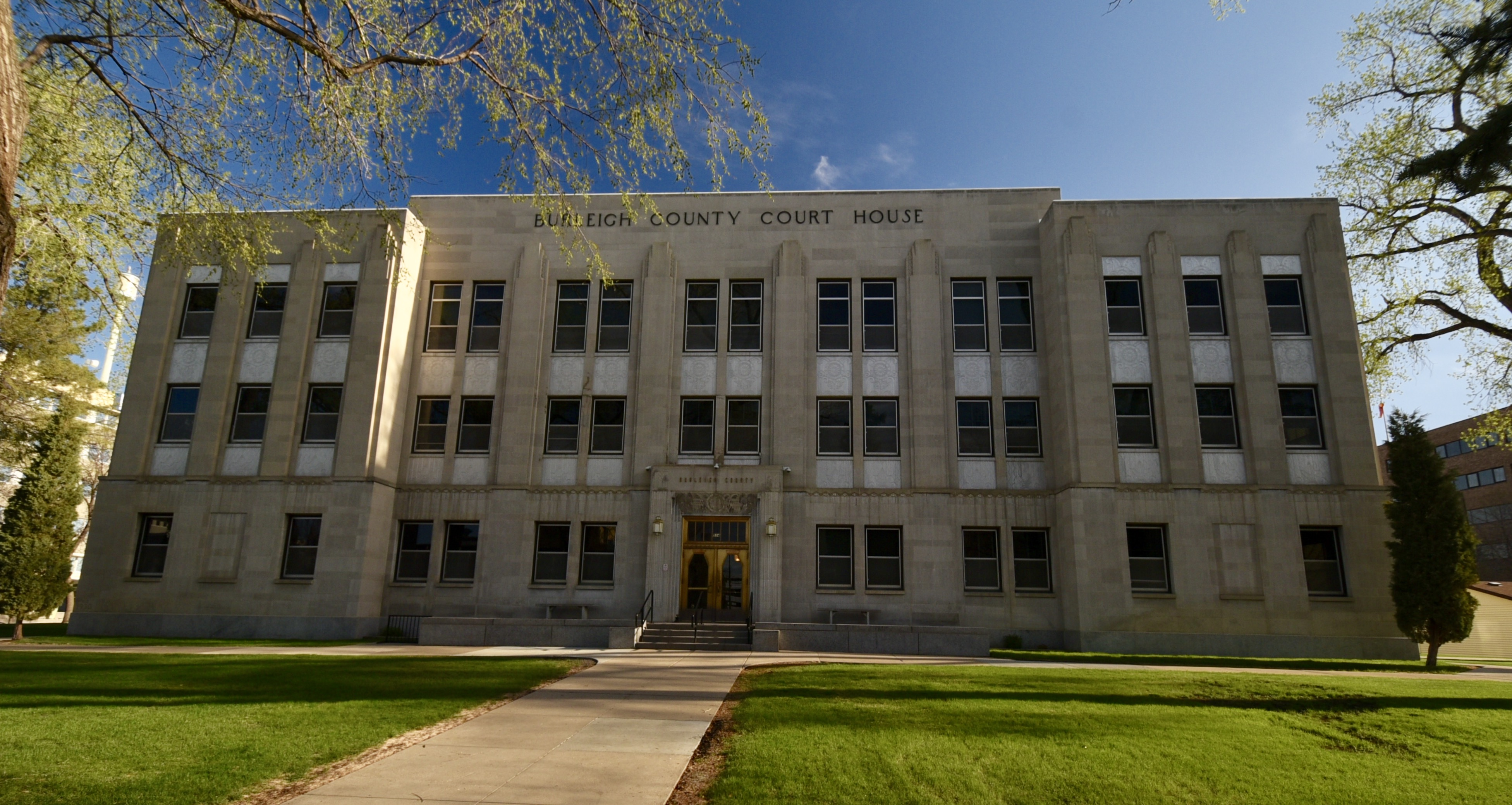 Downtown Bismarck Historic District